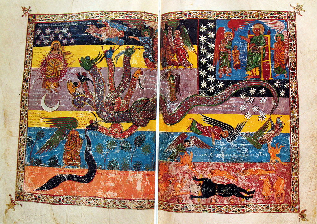 Picture of the Morgan Beatus. 10th Century.